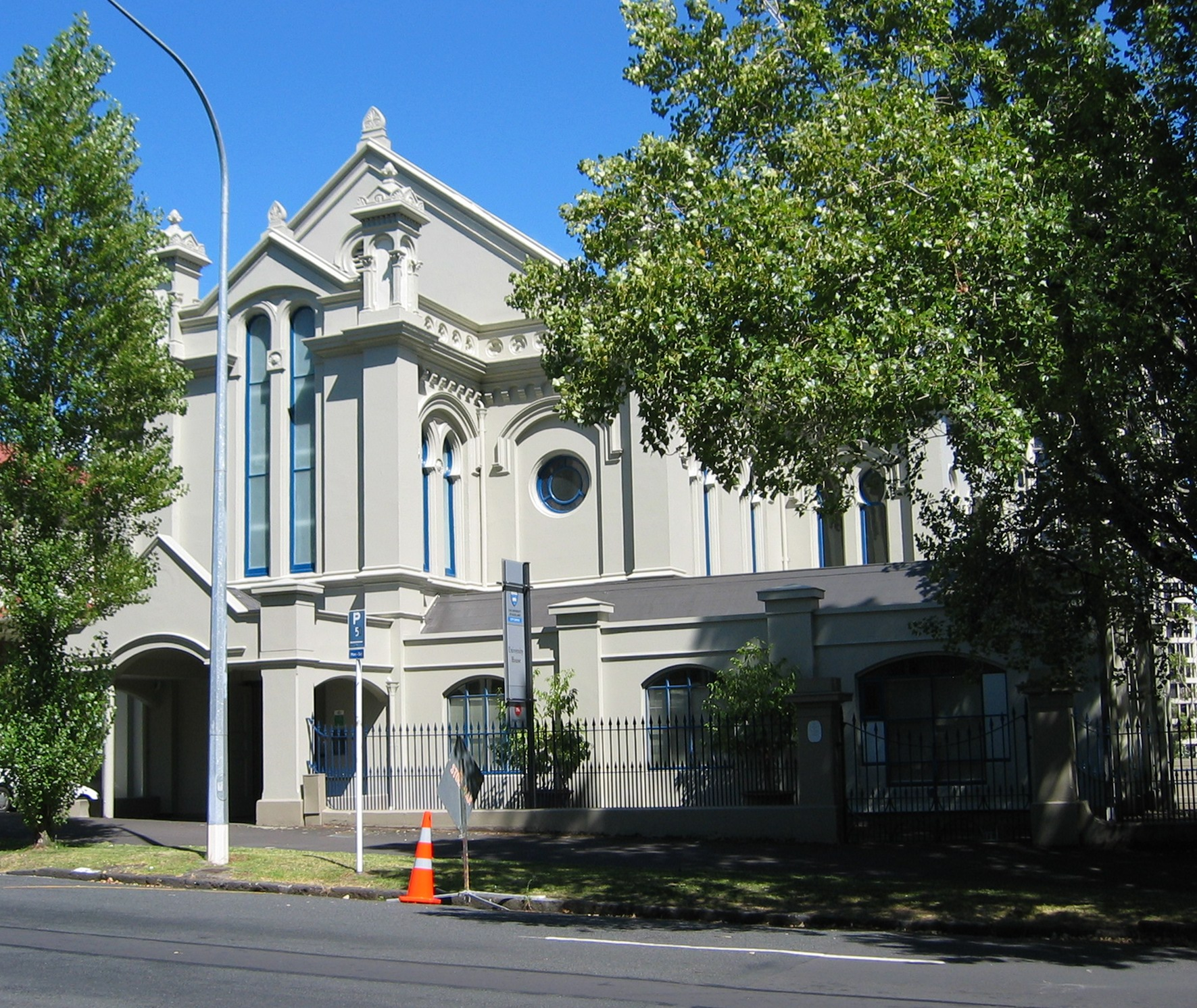 University House, which houses an office for alumni and friends of the University of Auckland. The building served as a synagogue from 1885 to 1967, and then as a branch of the National Bank.